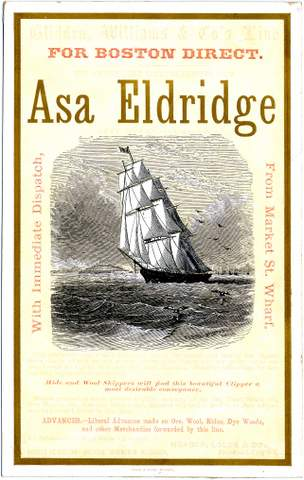 ASA ELDRIDGE Clipper ship sailing card FOR BOSTON DIRECT from Market Street Wharf